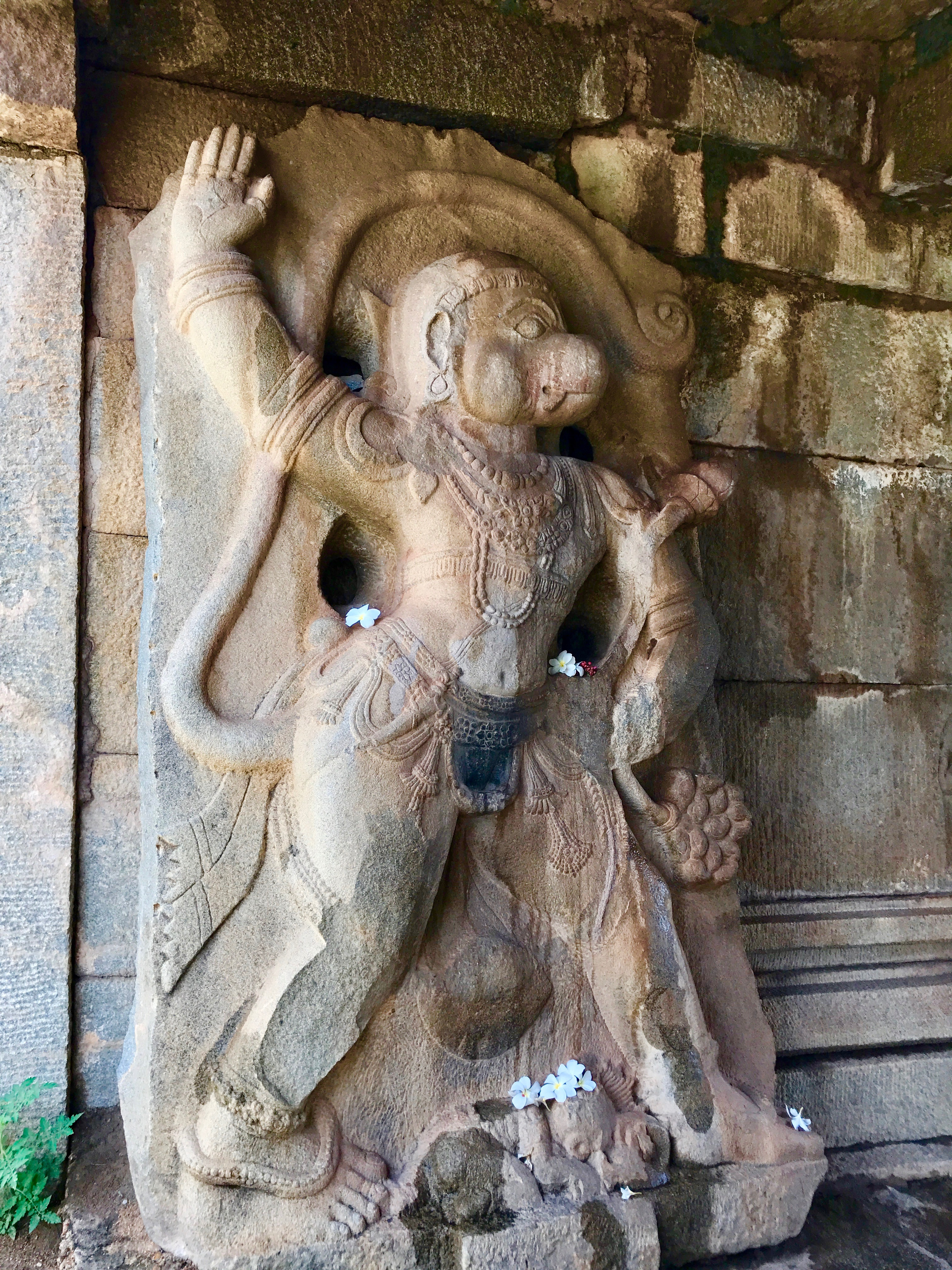 Madhava temple, also called Ranga temple, is a temple dedicated to Vishnu and Lakshmi. Outside the main shrine door, a giant Hanuman statue shows him with right hand raised, left fist (damaged) on his thigh and his arched tail above him. Around his waist is a belt with a dagger - also one of the Vijayanagara official emblems. Below Hanuman is a crawling demon killed by Hanuman. The scale emphasizes insignificance of the demonic evil and significance of the good that Hanuman symbolizes, a representation found in many historic Indian arts. Near the shrine is an inscription suggesting that the temple had a large performance arts hall in front, but now there are only ruins. Next to the main shrine are the ruins of a shrine for Krishna with Bhagavata Purana legends carved onto them. Hampi ruins and monuments date to pre-17th century period of South Indian history, particularly those related to the Hindu Vijayanagara Empire era (14th-16th centuries). The site consists of numerous ruins and temples over a large area, the most visited and studied are those located near the Tungabhadra river. The town derives its name from the Pampa Devi Hindu mythology in Sanskrit, with Pampa morphing into Hampa in Kannada, then Hampi. The city served as capital of the Vijayanagara rulers, was pillaged, ruined and abandoned after Muslim armies of a Sultanate coalition attacked and defeated it. In the modern era, it serves as an archaeological site and is a UNESCO world heritage site.